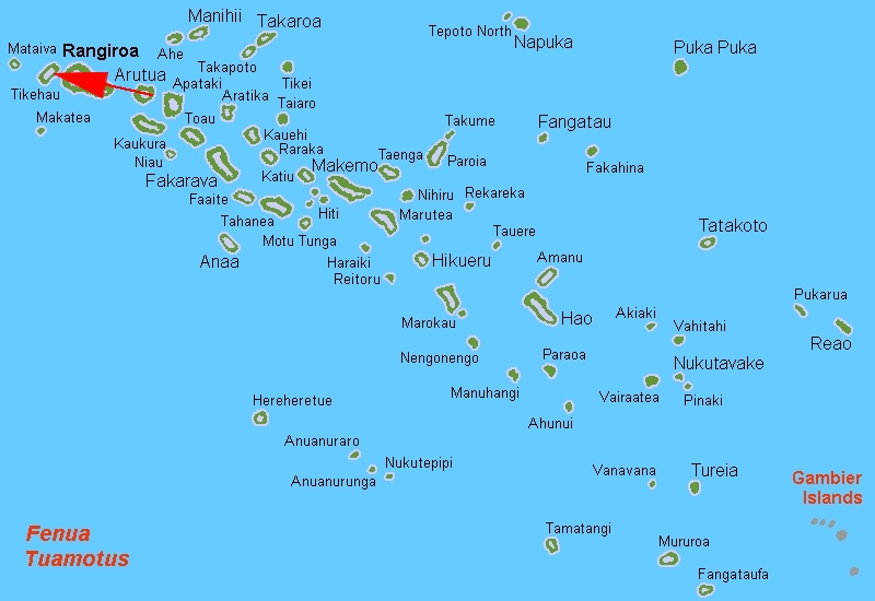 map Tuomotu islands, French Polynesia